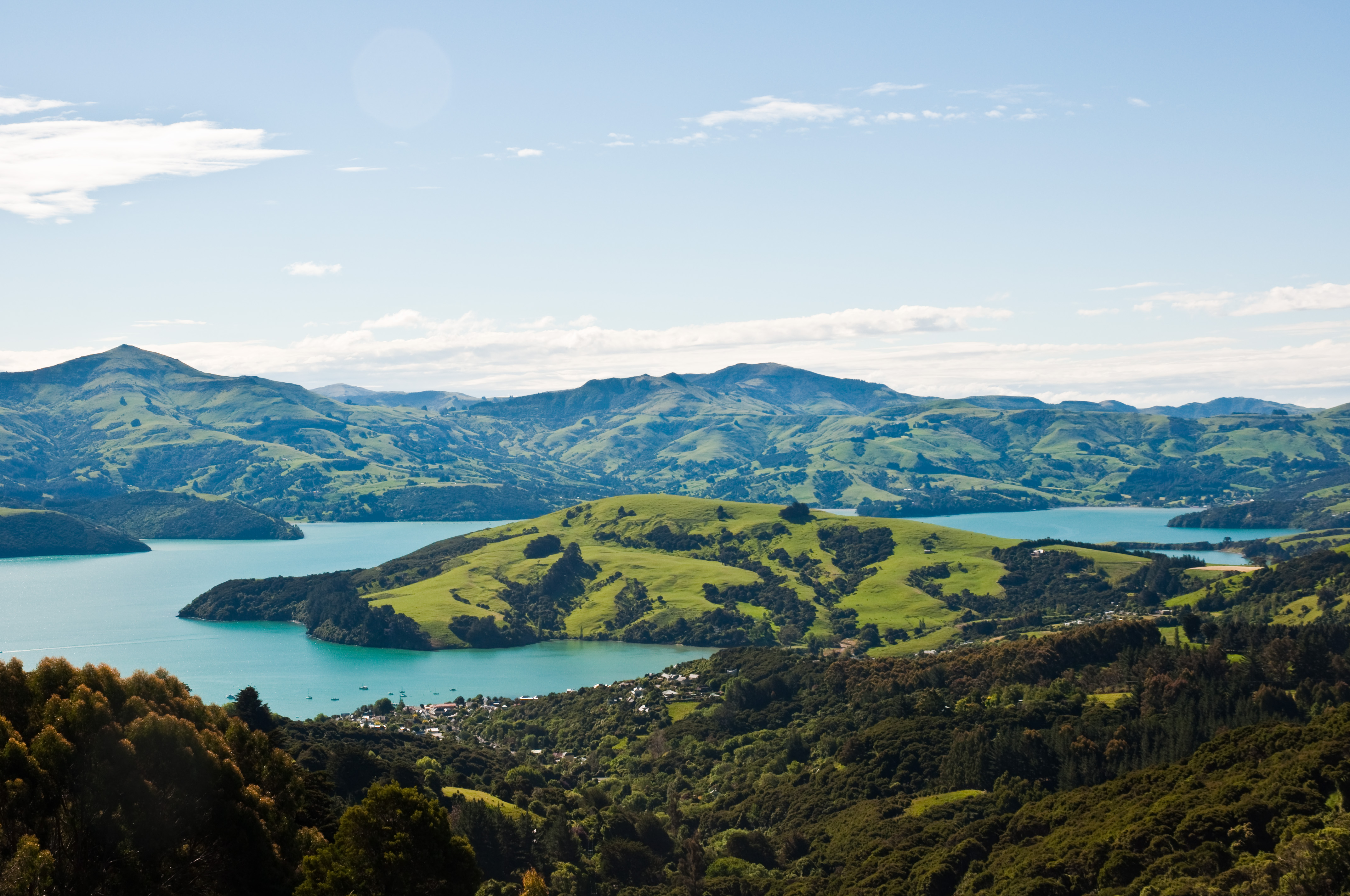 Upper Akaroa Harbour, Canterbury, New Zealand, 21st. Nov. 2010